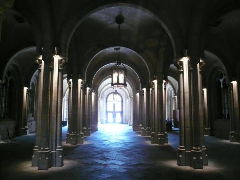 University of Barcelona central building hall, by architect Elies Rogent